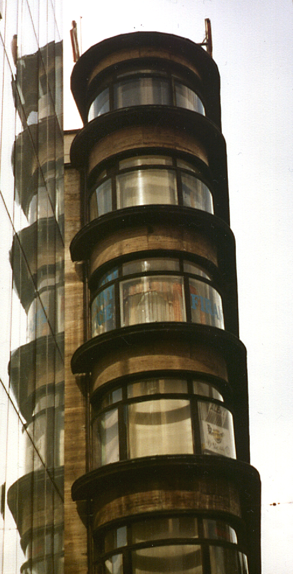 Wrocław, Poland, Schuhbruecke (Szewska Street) Petersdorff departament store, by Erich Mendelsohn, 1929. Modern movement, dynamic style. external link archINFORM page about the building